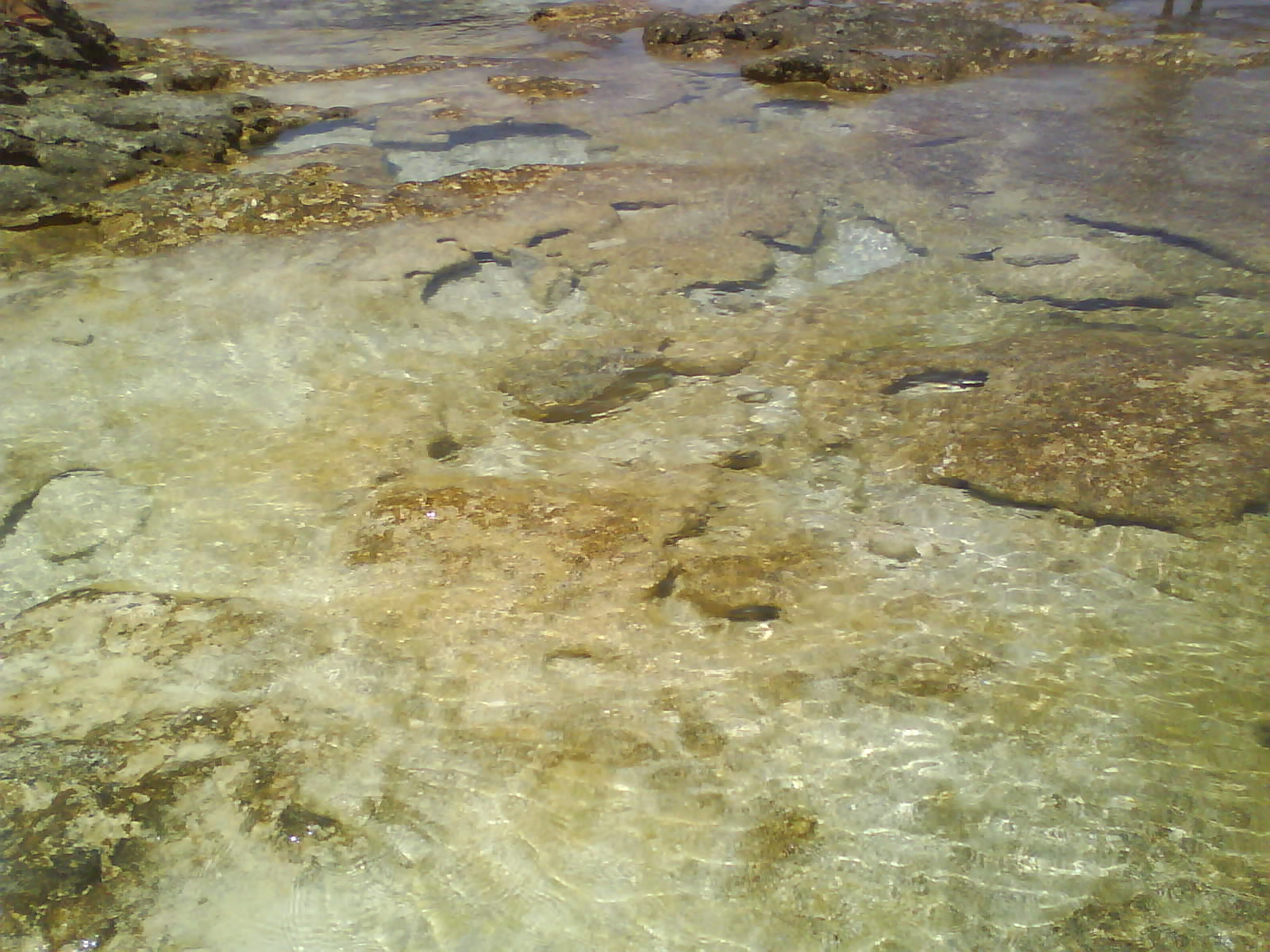 Picture taken at Layla Mourad rock in El Gharam beach in Mersa Metruh Unknown